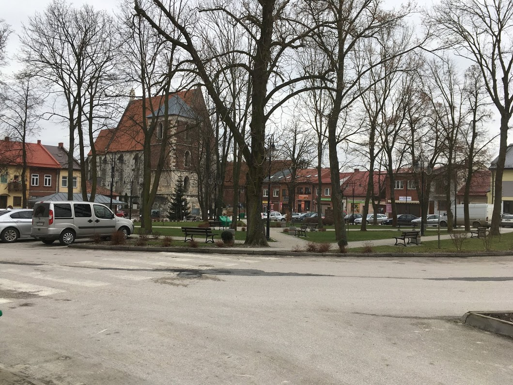 Wislica Central Park, located in the center of Wislica. The photo was taken on 25 Dec 2017